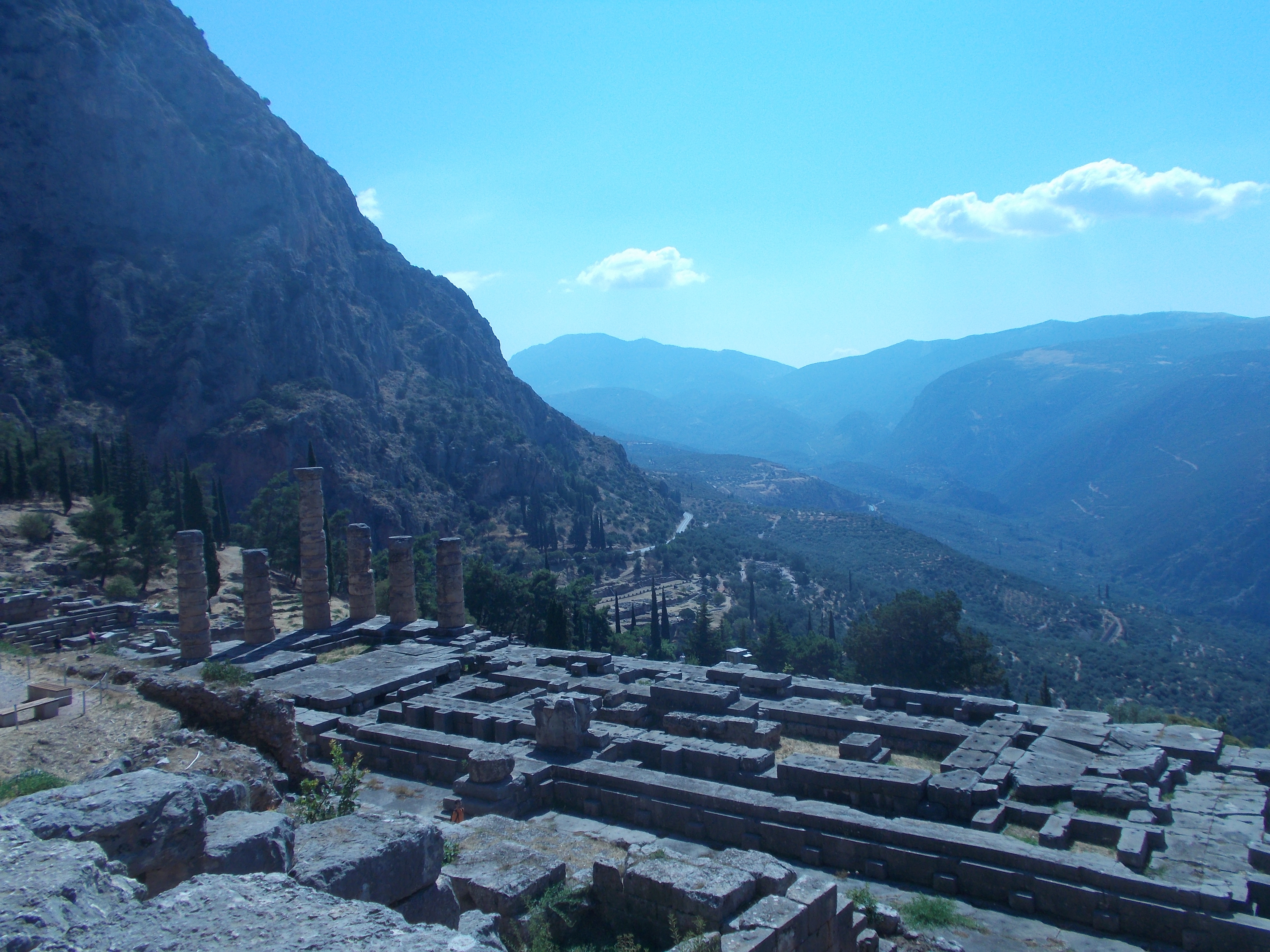 Sanctuary of Apollo at Delphi